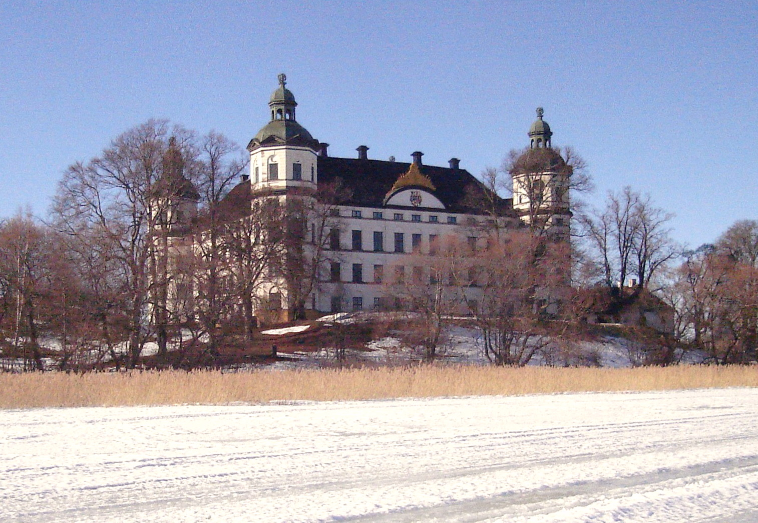 Skokloster Castle from the lakeside